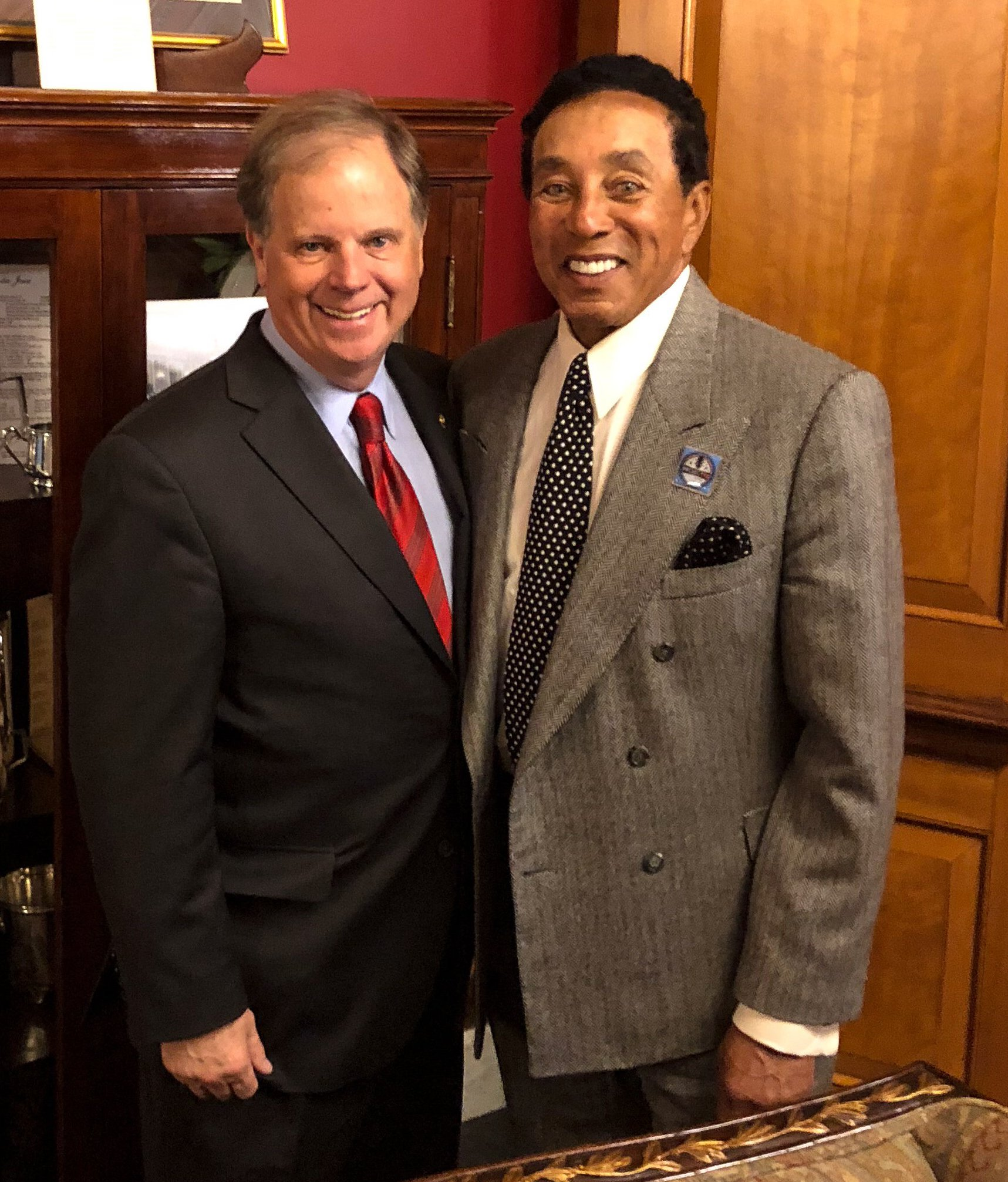 What an honor to meet the legendary @Smokey_Robinson yesterday while he was here to testify on the #CLASSICSAct.